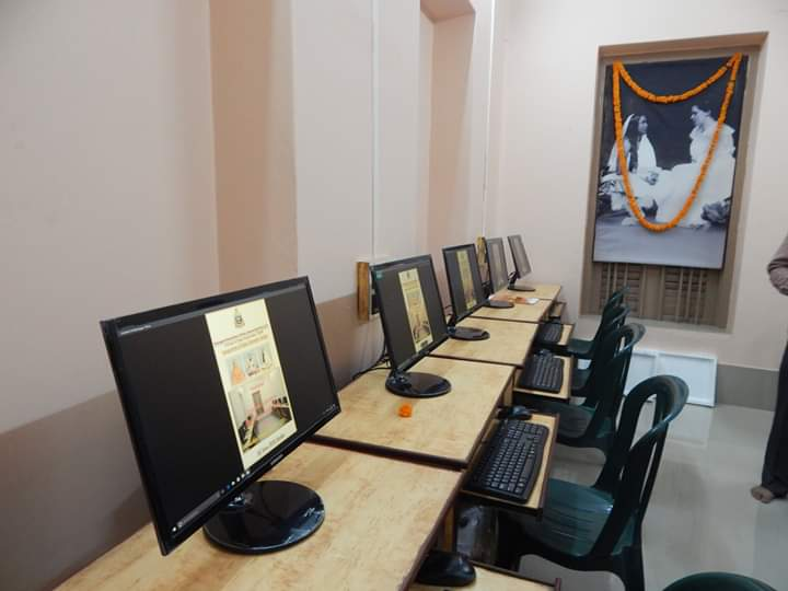 Computer laboratory of BRKM